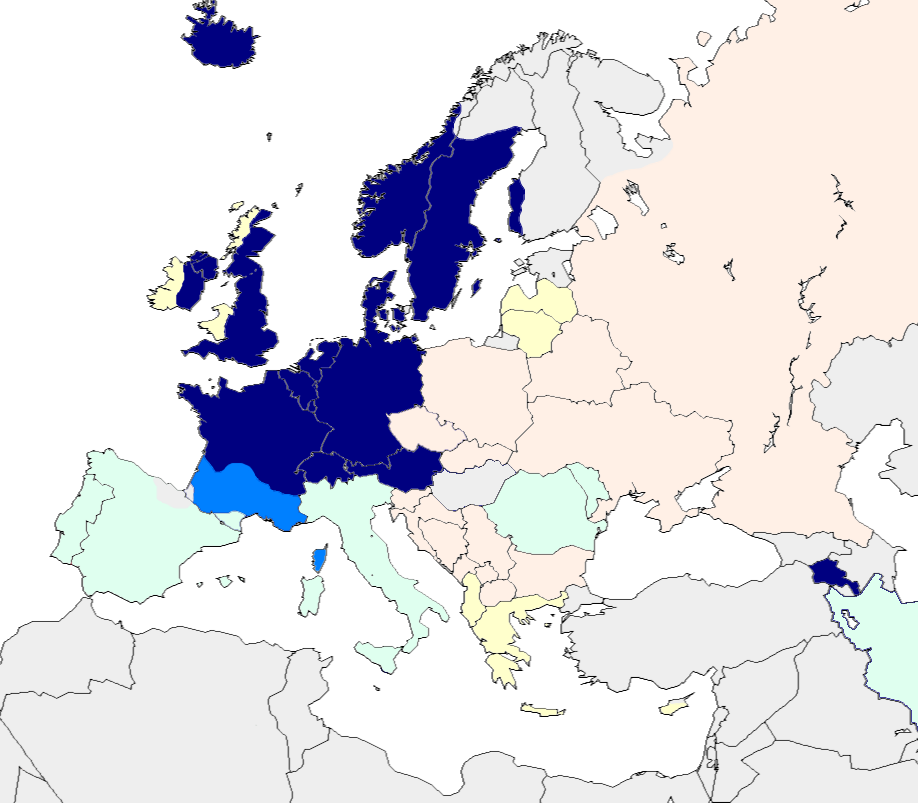 Pro-drop languages in Europe. Dark blue: Explicit verb subject pronouns required.